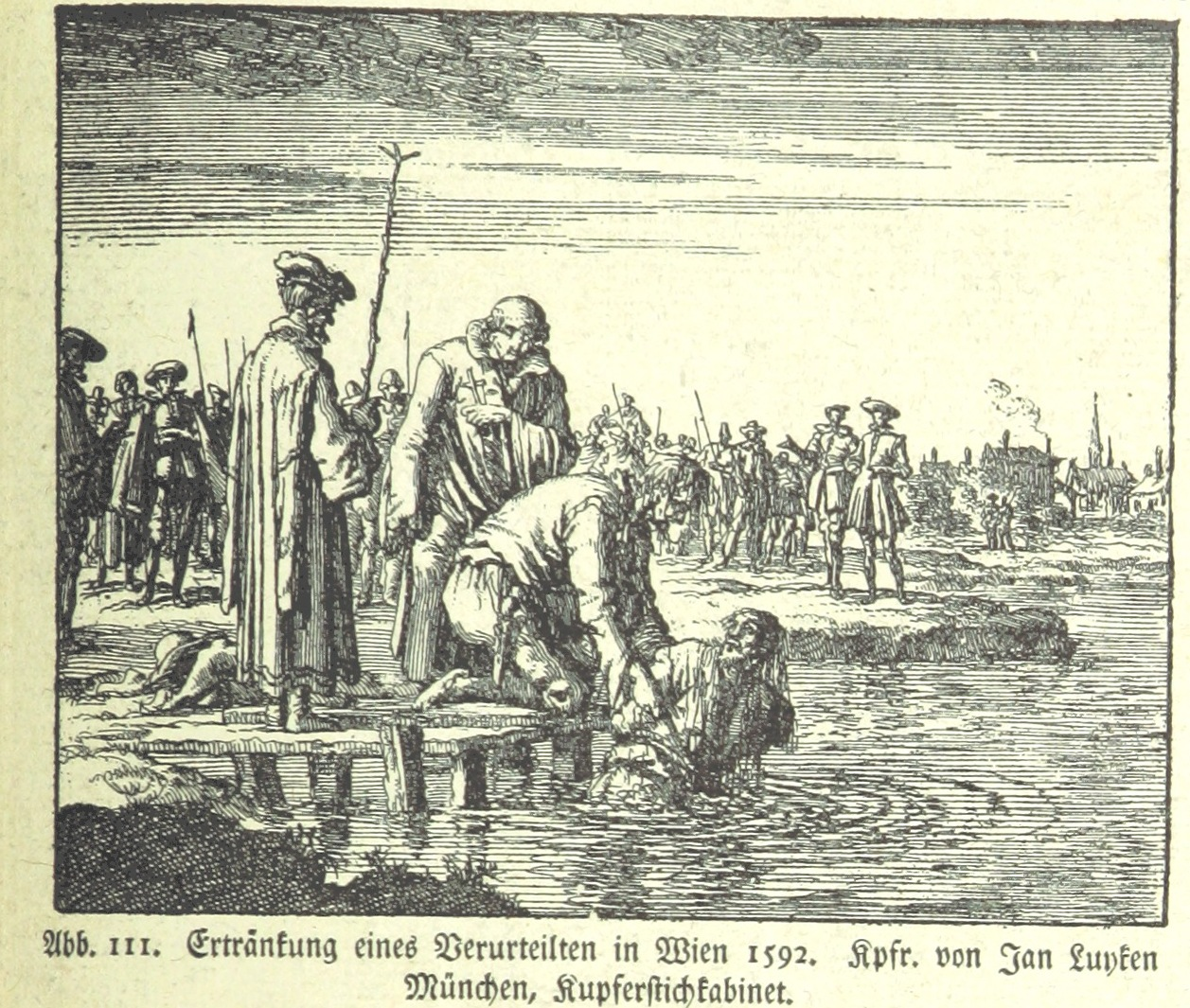 Image extracted from page 131 (Volume 4) of Monographien zur deutschen Kulturgeschichte, herausgegeben von G. Steinhausen', by STEINHAUSEN, Georg. Original held and digitised by the British Library. Copied from Flickr. Note: The colours, contrast and appearance of these illustrations are unlikely to be true to life. They are derived from scanned images that have been enhanced for machine interpretation and have been altered from their originals.